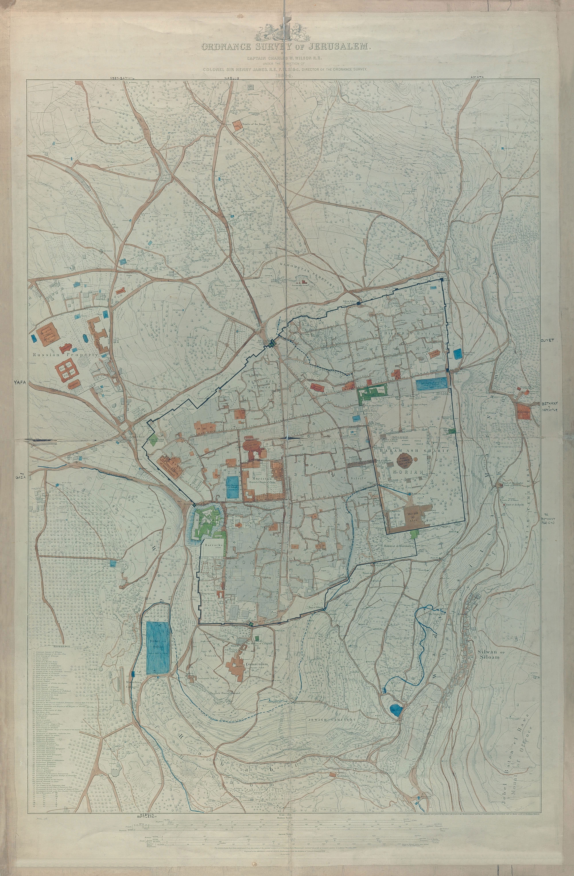 A large topographic detailed map of Jerusalem. Revised edition (1876) of one of the first measurment maps of the city. Originally prepared by Charles Wilson, as part of the British Ordnance Survey of Jerusalem, 1864-5.